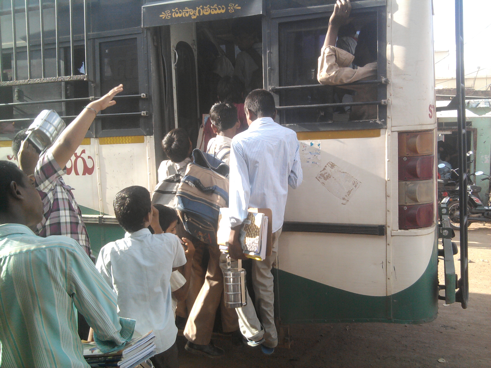 Passengers boarding on APSRTC Bus